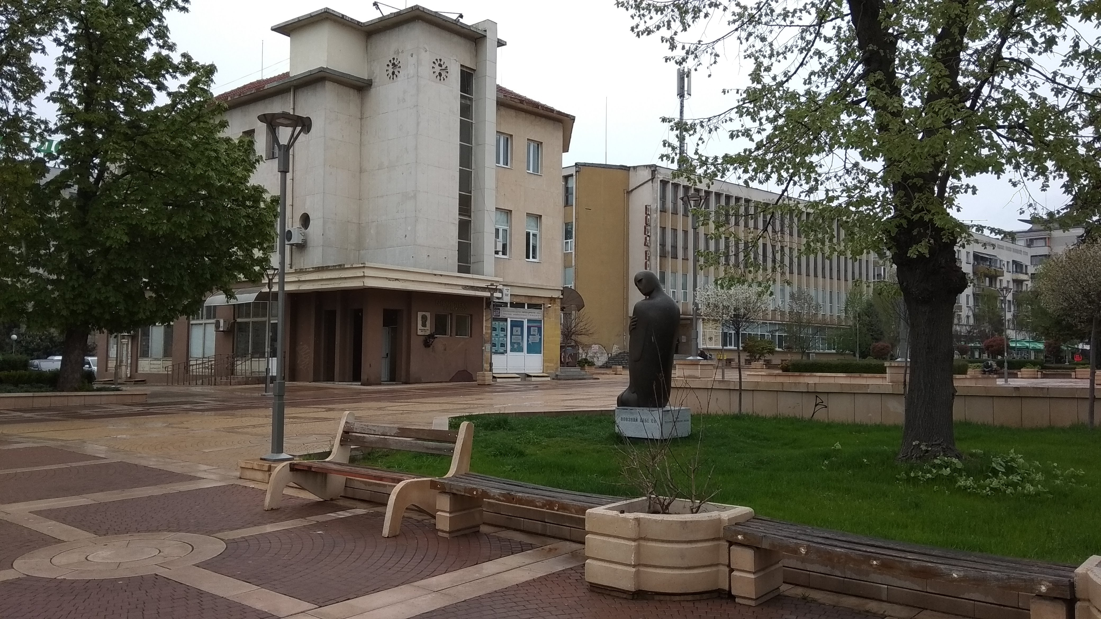 Public Library, Central Post Office and city center